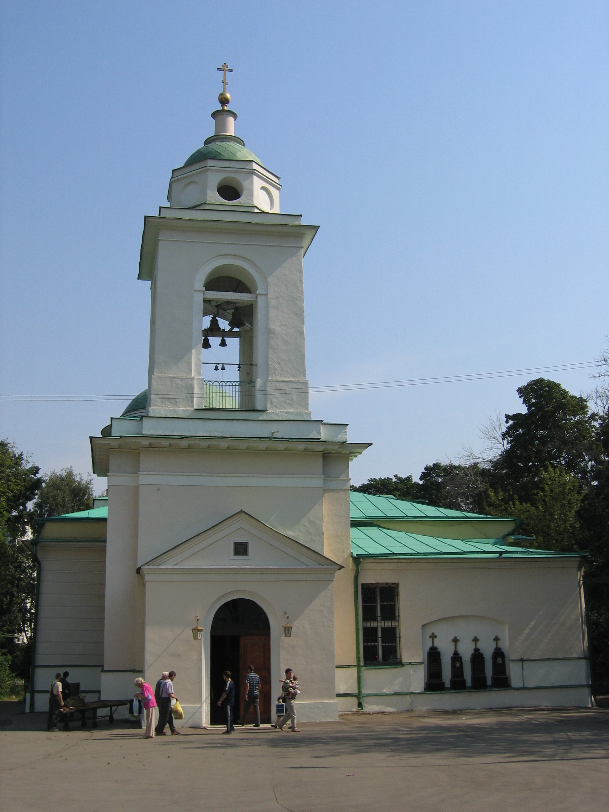 Church on Moscow's Danilov Cemetery